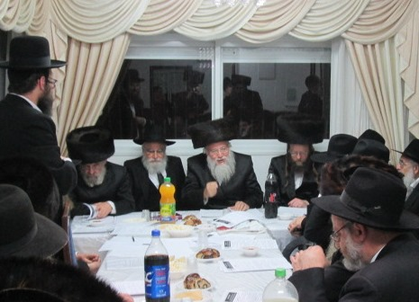 Rabbi Mordechai Friedlander at a meeting of Rabbis of Ramat Shlomo.